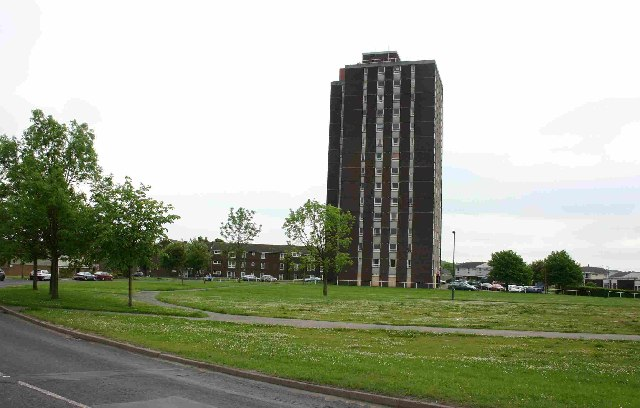 Jordanthorpe Sheffield High Rise. A curiously solitary high rise building surrounded by low rise flats and houses. Presumably a '60s housing experiment in mixed housing